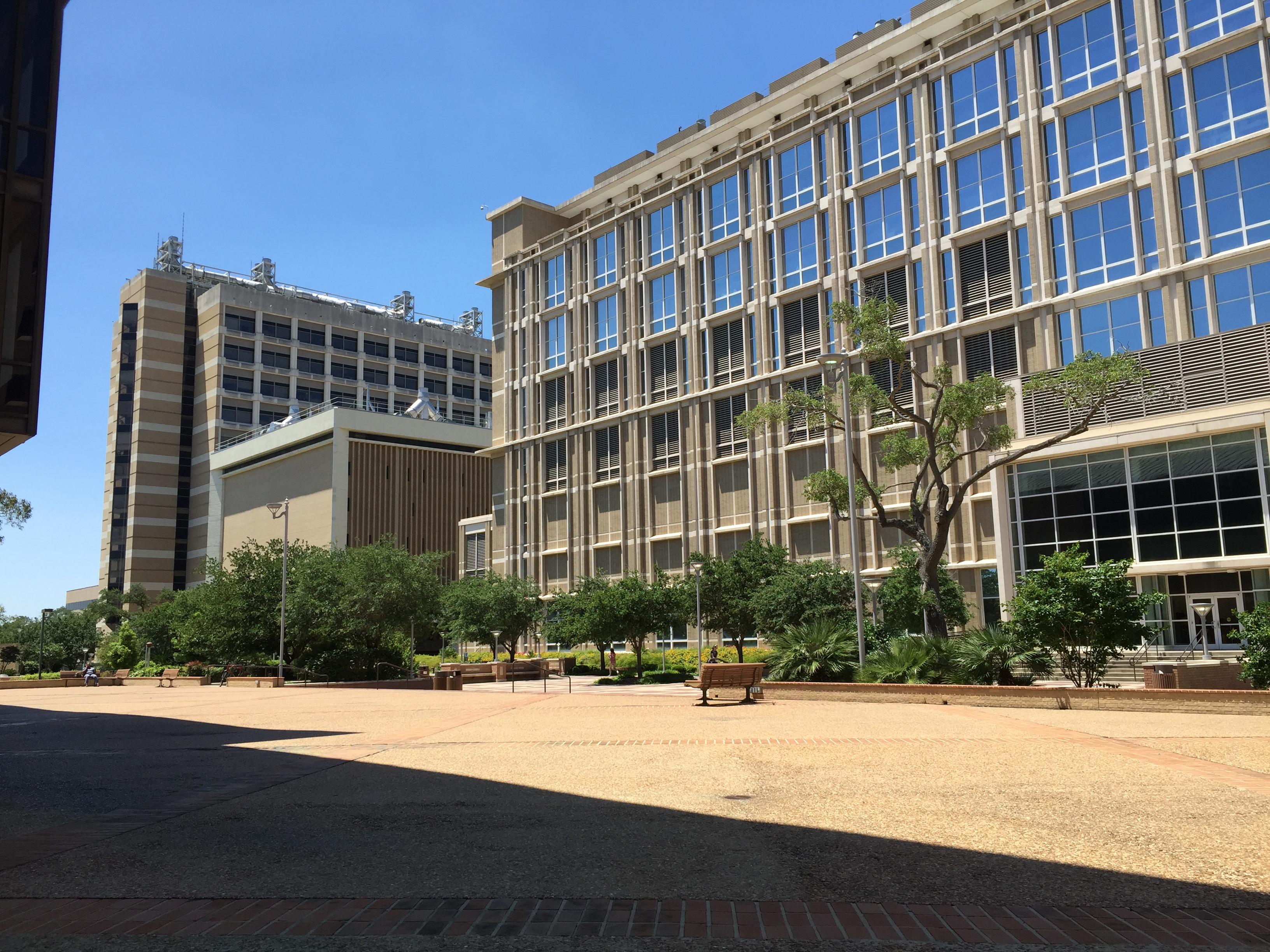 UTMB's Research Buildings: Galveston National Laboratory (nearest), Moody Basic Science Building (middle), Medical Research Building (farthest).